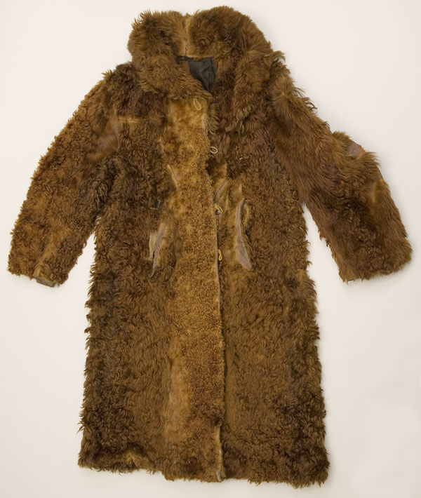 Coat c 1880 Commercially-made bison coats became popular during the great buffalo hunts of the 1860s-1880s. The coat was also adopted by the US Army for use on the frontier in the 1870s. This coat belonged to Sam Slickpoo. It is a commercial coat with tailored sleeves and a black cotton lining, button loops and side pockets. Bison hide (Bos bison), cotton. H. 131.0, W. 158.0 cm Nez Perce National Historical Park, NEPE 8894